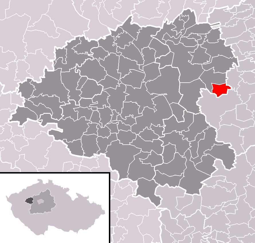 Location of Rynholec municipality within Rakovník District and (identical) administrative area of Rakovník as a Municipality with Extended Competence.